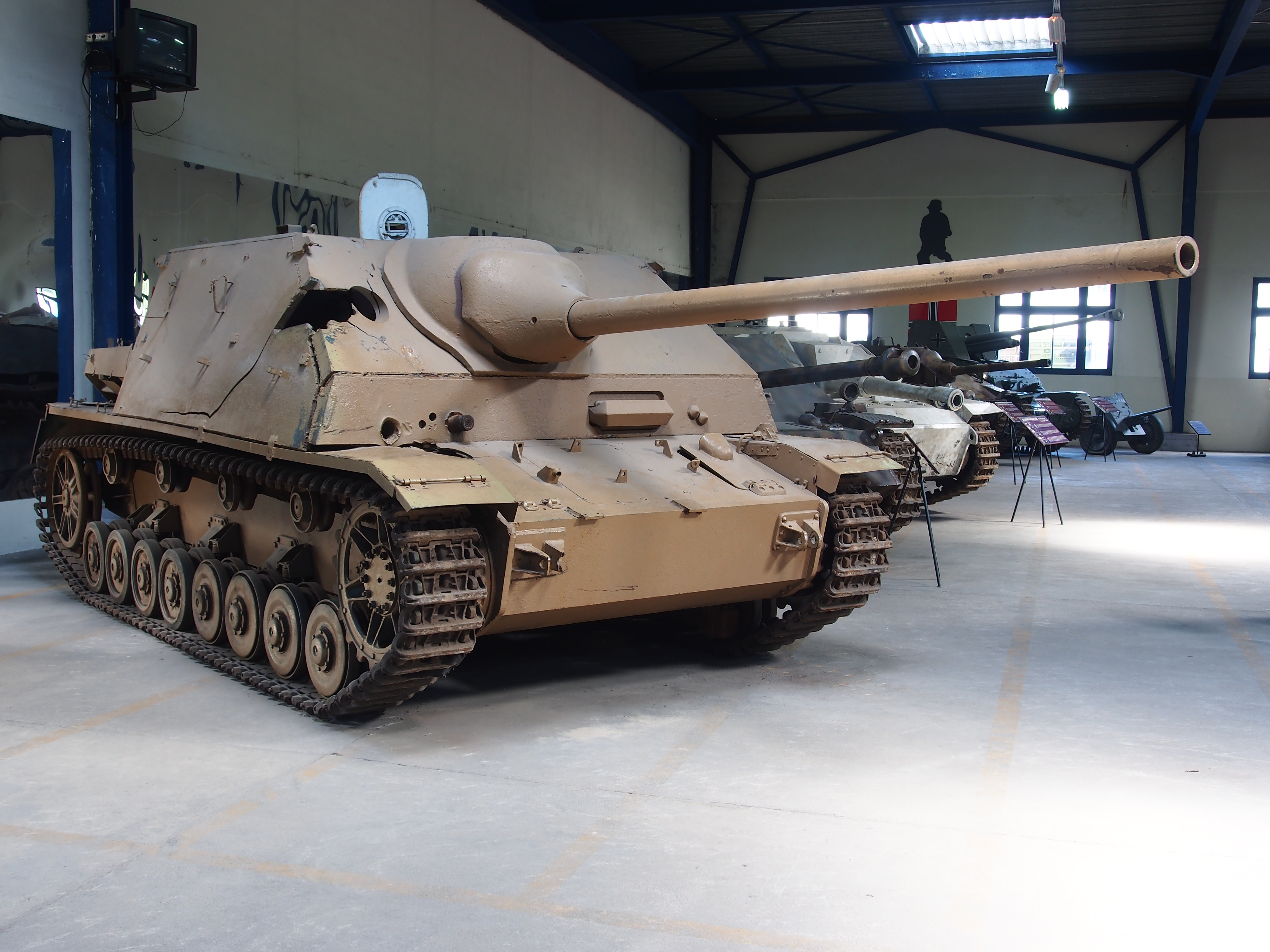 Photographed in the Musée des Blindés, France.